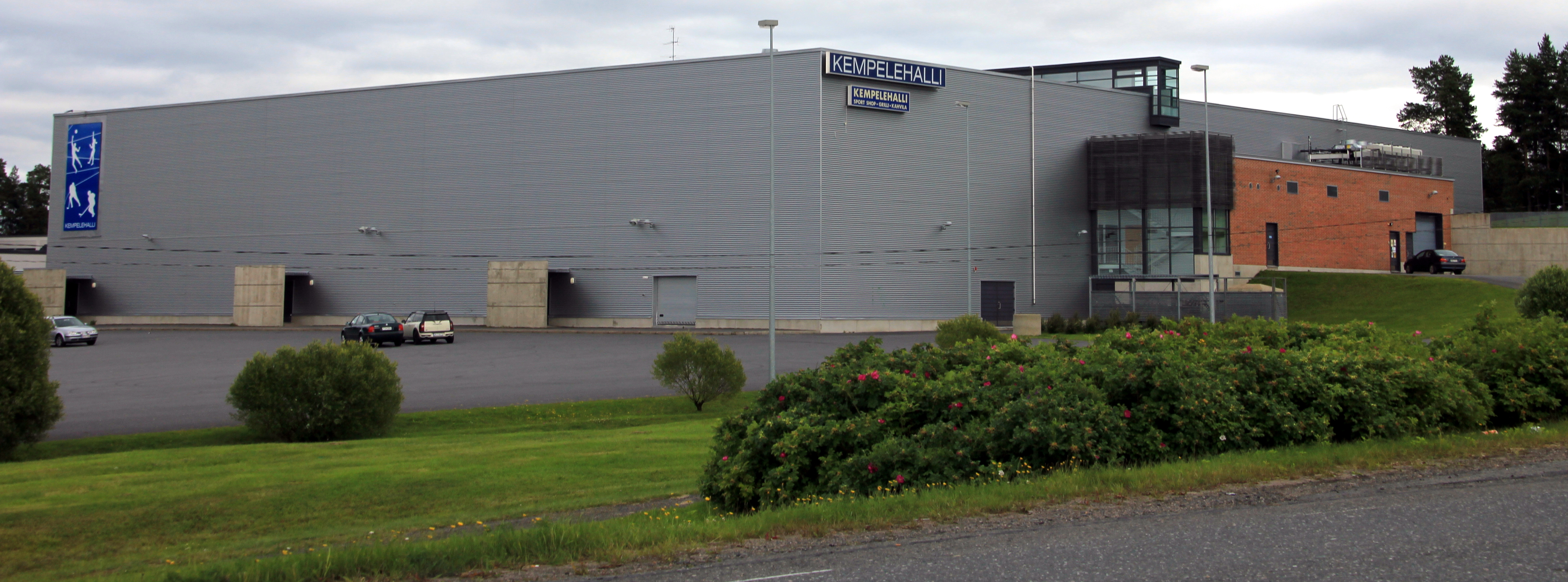 Kempelehalli in Kempele, Finland